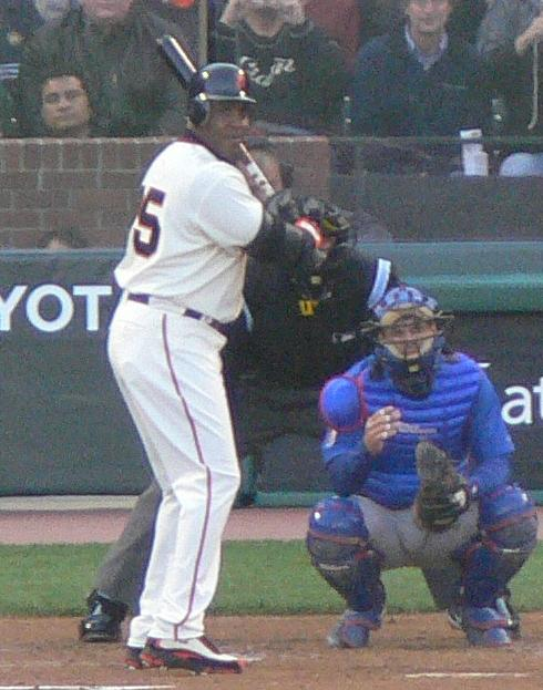 Barry Bonds at the plate against the Cubs. According to Yahoo sports and the image's Flickr Page, Michael Barrett is behind Bonds